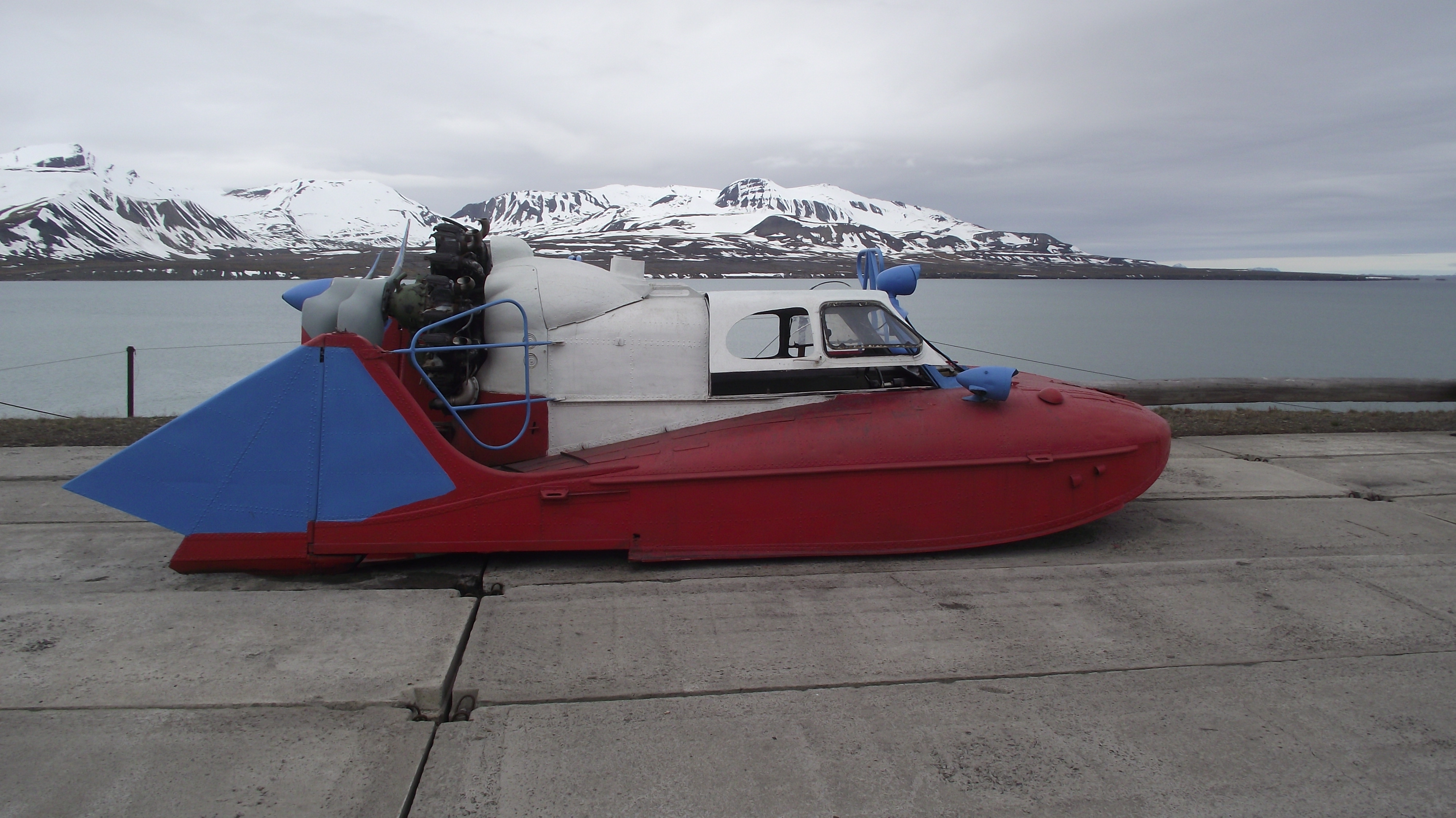 disused vehicle parked in an exposition area in Barentsburg